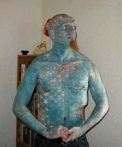 Sideshow performer The Enigma (Paul Lawrence), taken at my home in Winnipeg, Manitoba Canada prior to his performance June 6, 2005